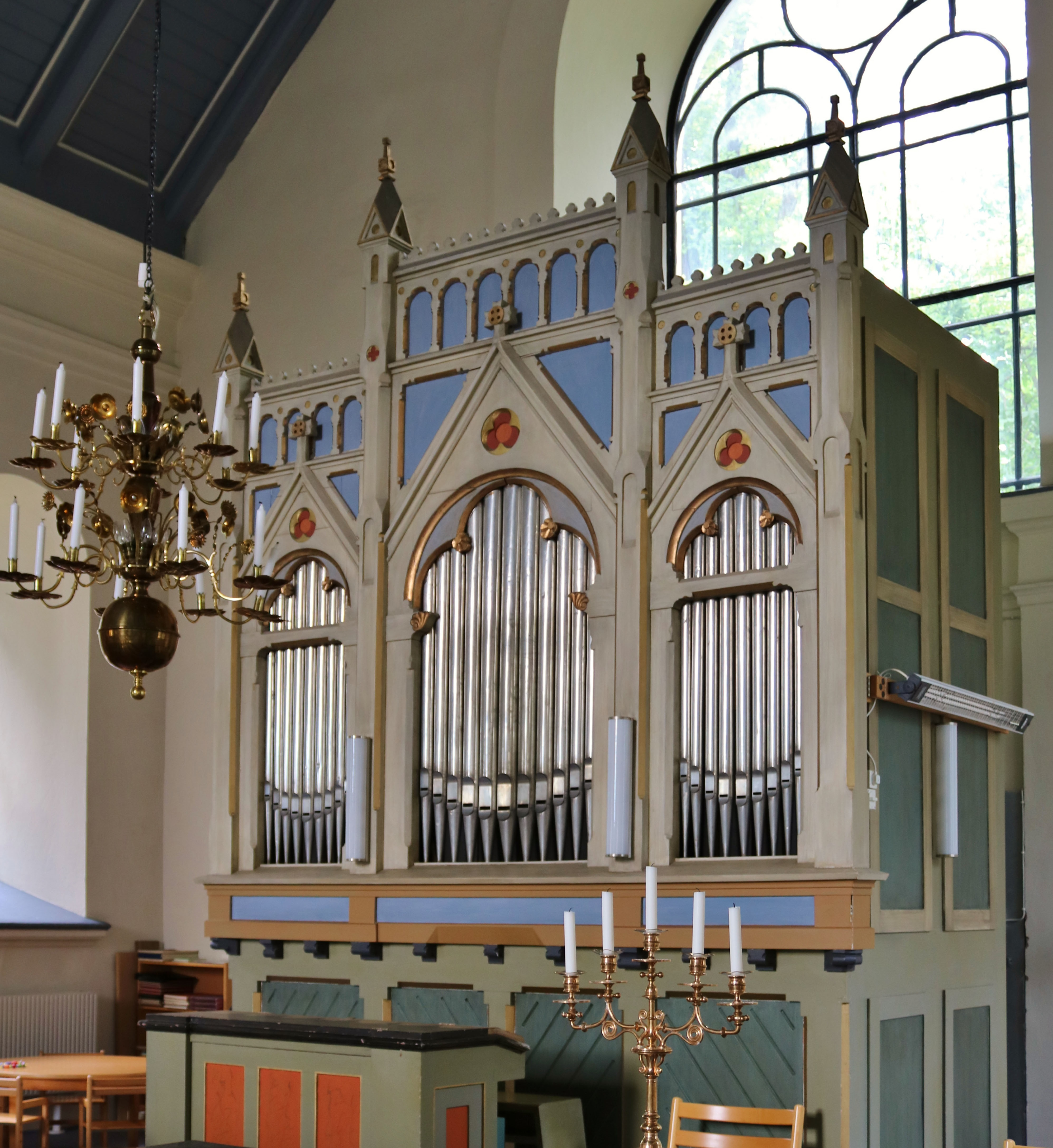 Sankt Sigfrid Church. The organ